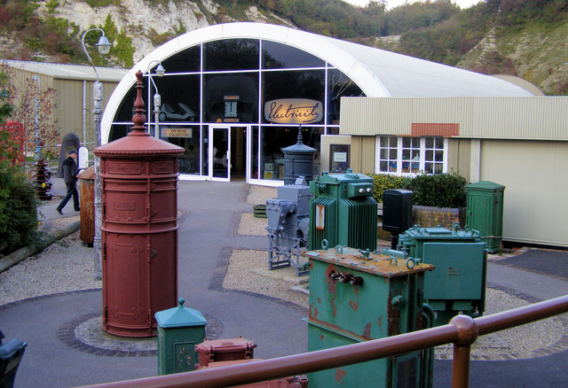 Seeboard Electricity Pavilion, Amberley Working Museum An excellent and fascinating display of all things electrical.